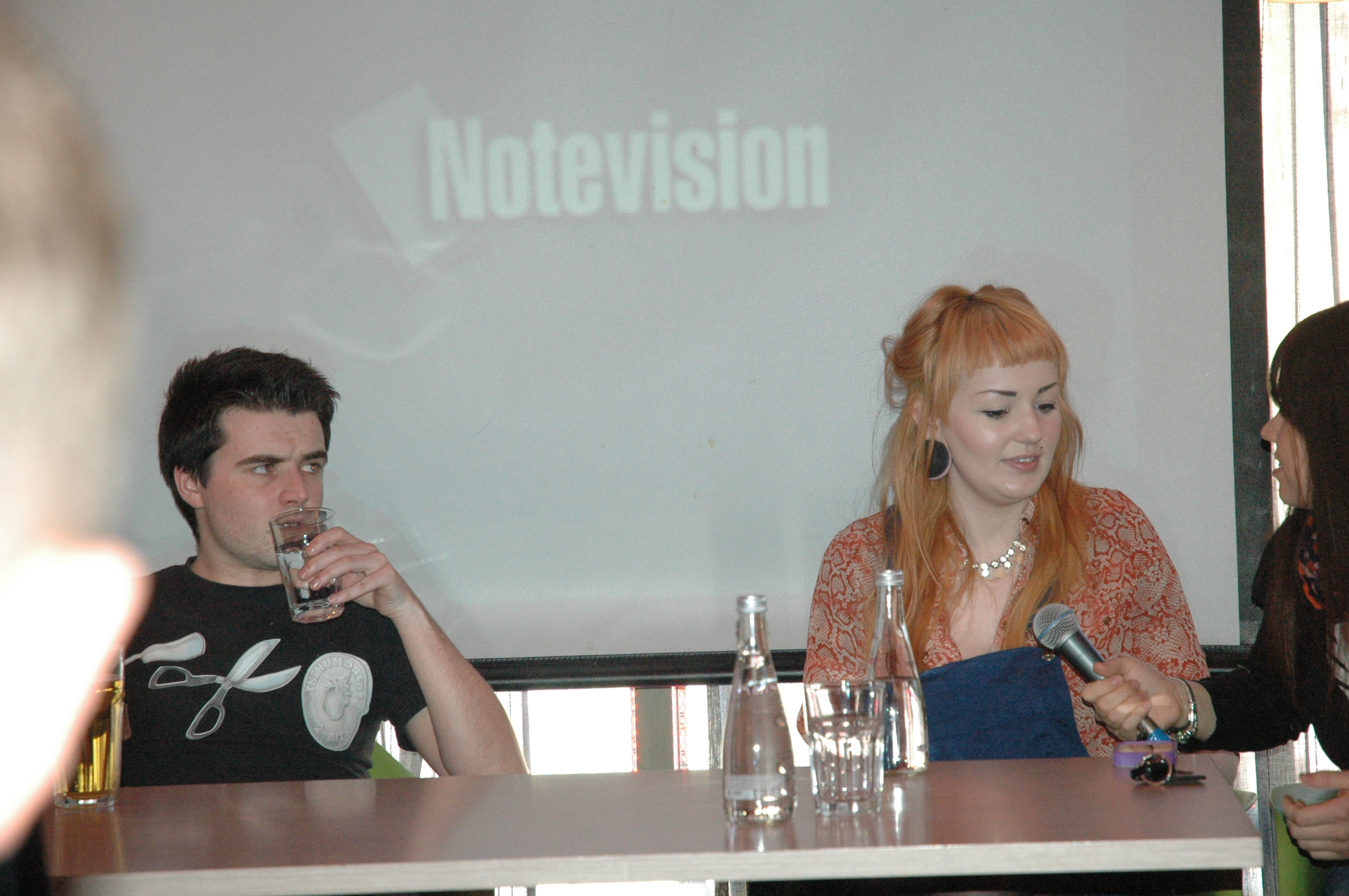 Mike Boorman and Adele Morse @ Geometria Cafe (St-Petersburg, Russia, 06.04.2013)